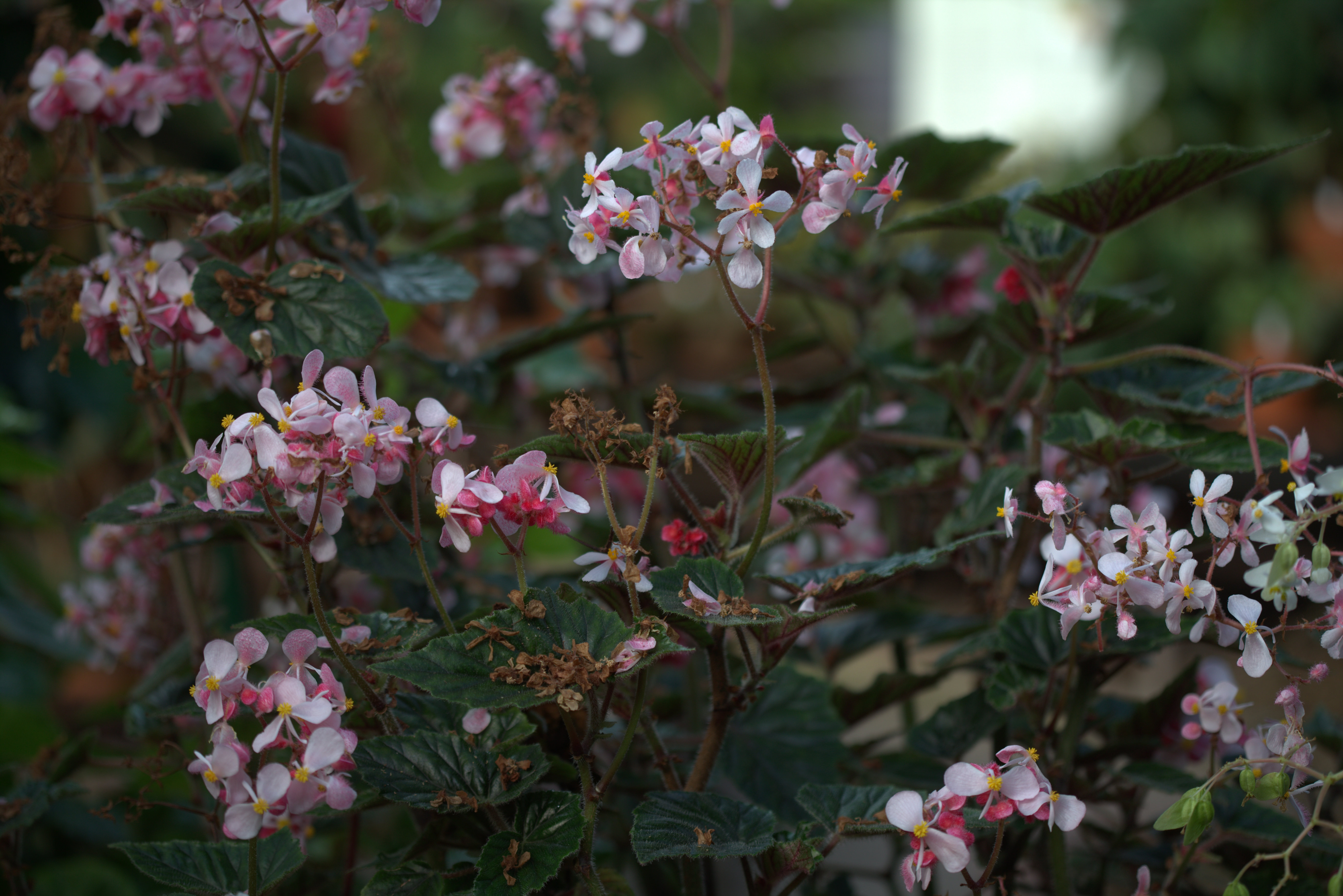 Begonia metallica (syn. de Begonia incarnataThPL) in Gotheburg Botanical Garden. Plant id: 2007-2031 c G -- Palmeng.